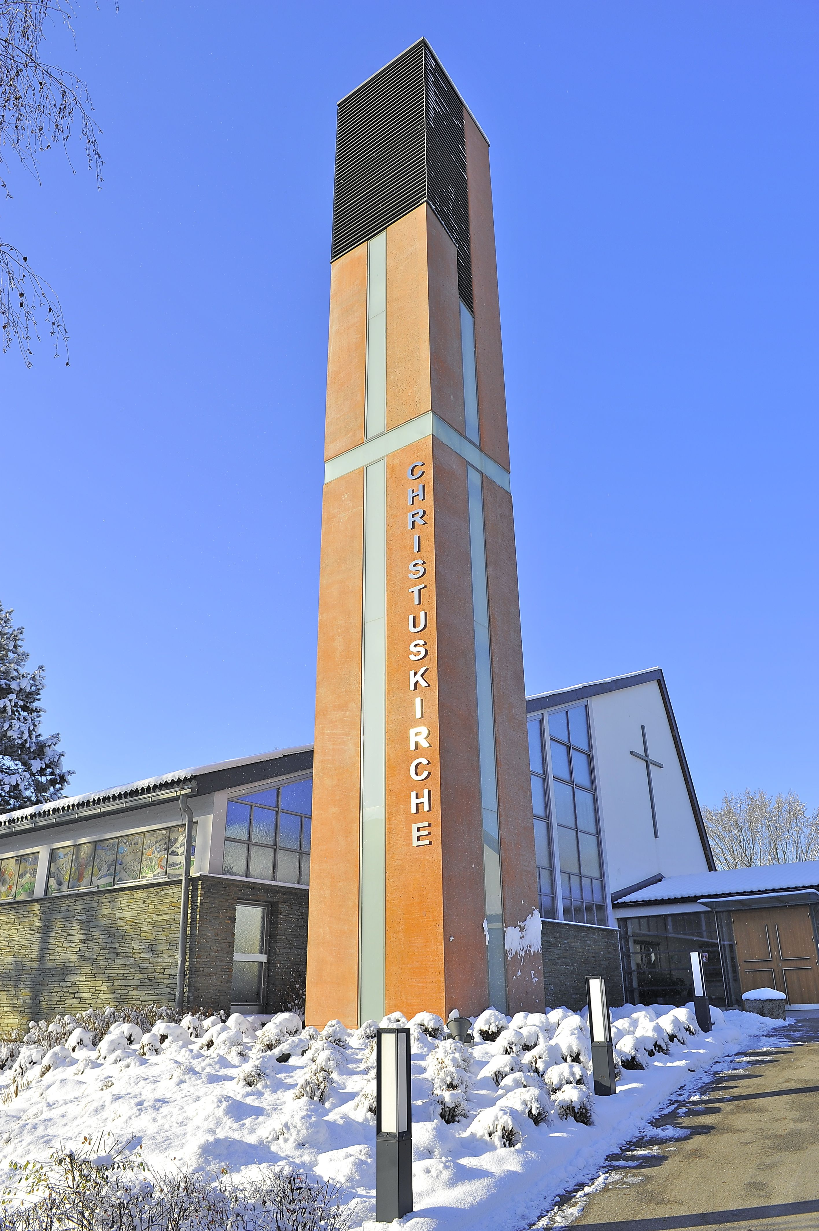 Lutheran Christ church on the Auer-von-Welsbach-Street of Welzenegg, 10th district "Sankt Peter" of the Carinthian capital Klagenfurt on the Lake Woerth, Carinthia / Austria / EU